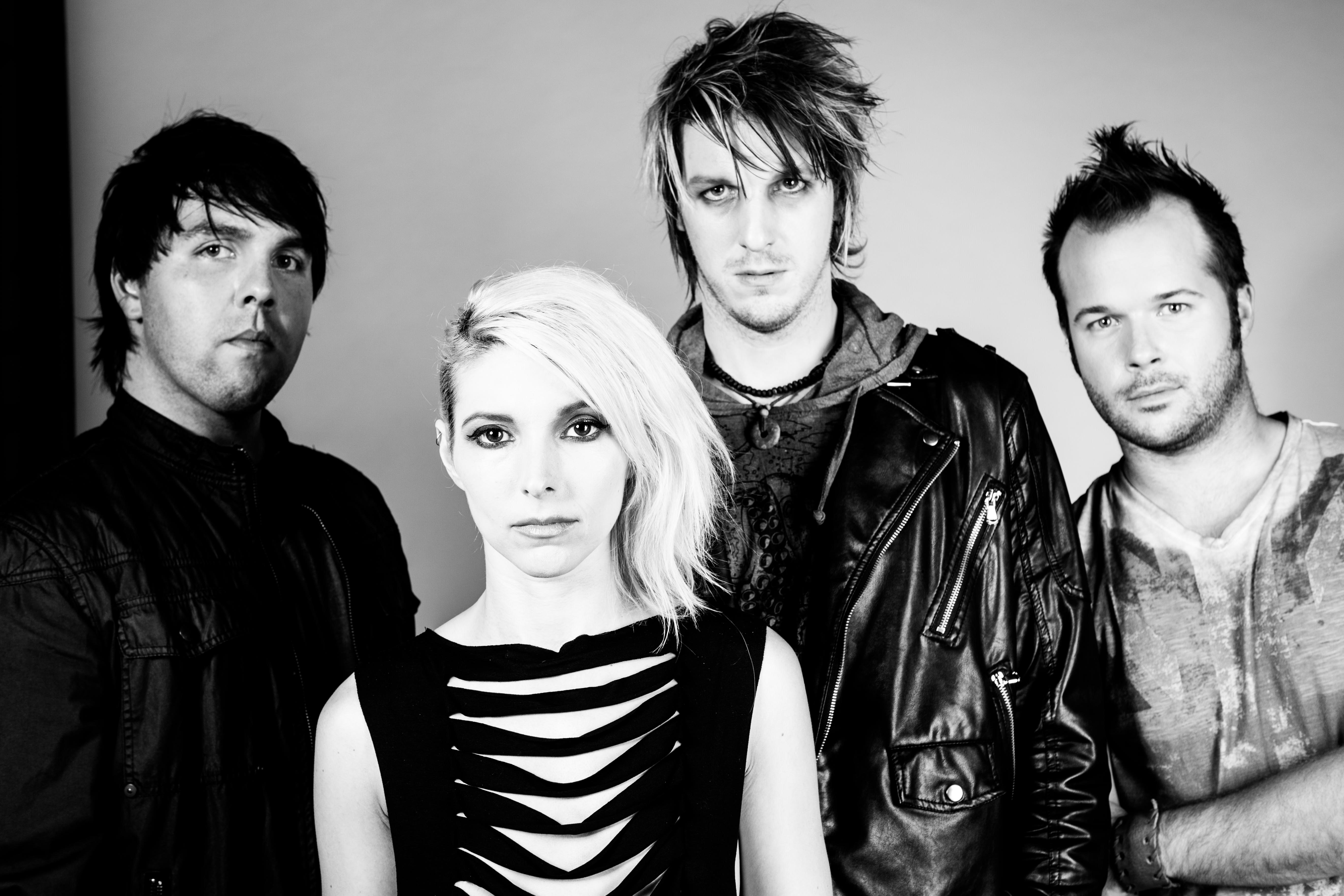 Members of the Baltimore, MD based alternative rock band The Last Year.